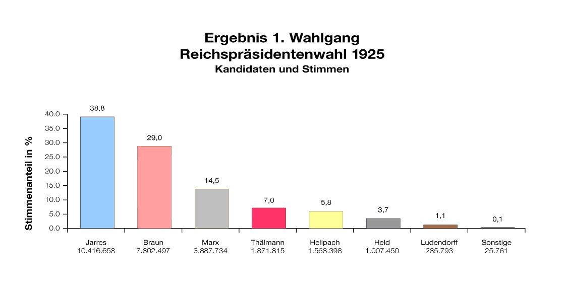 Election of Reichs President / President of the German Reich. Results of first ballot, 29 March 1925.